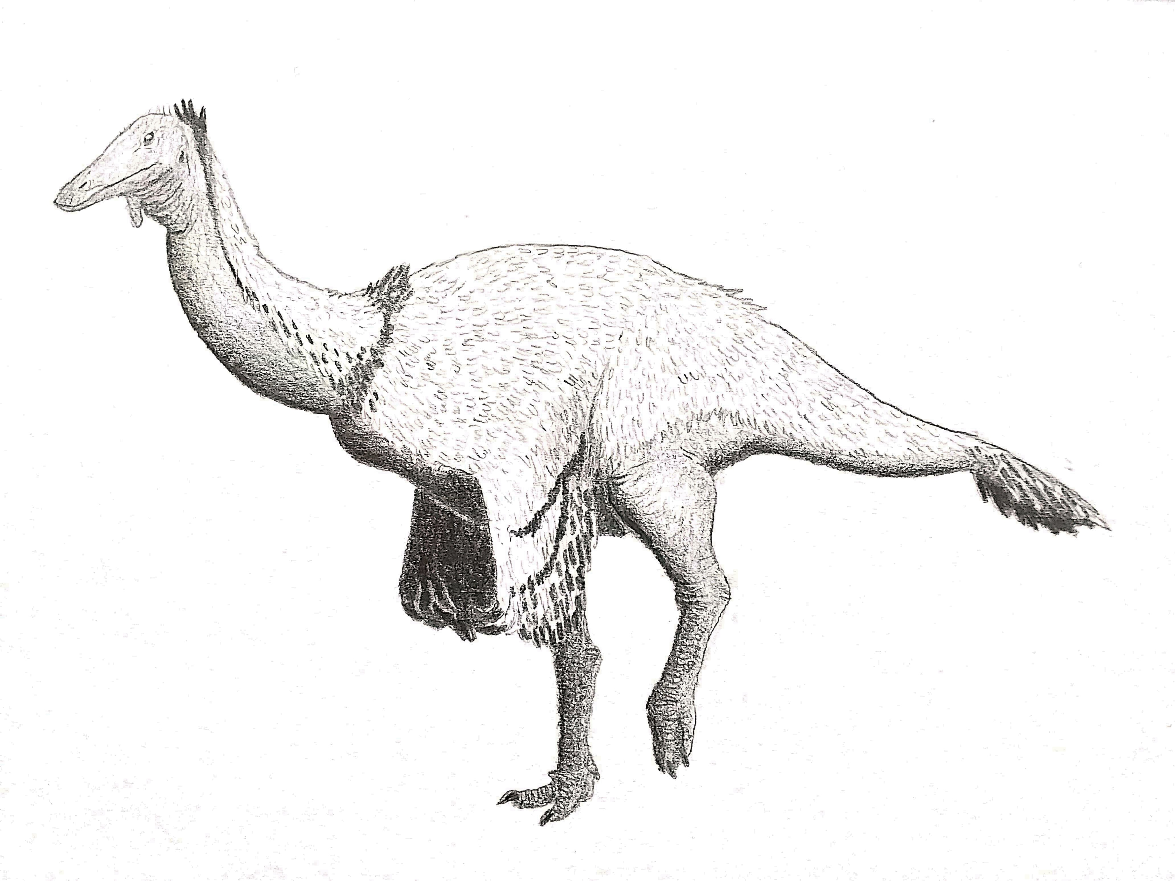 Paraxenisaurus normalensis reconstructed as a deinocheirid